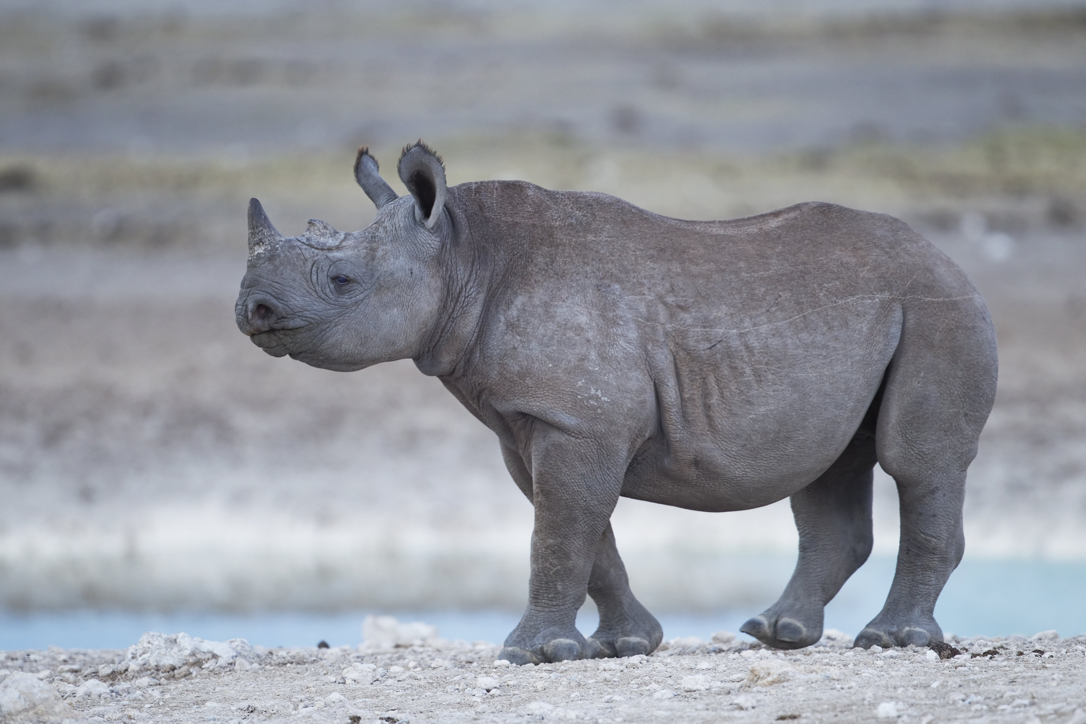 Black rhinoceros calf (Diceros bicornis).